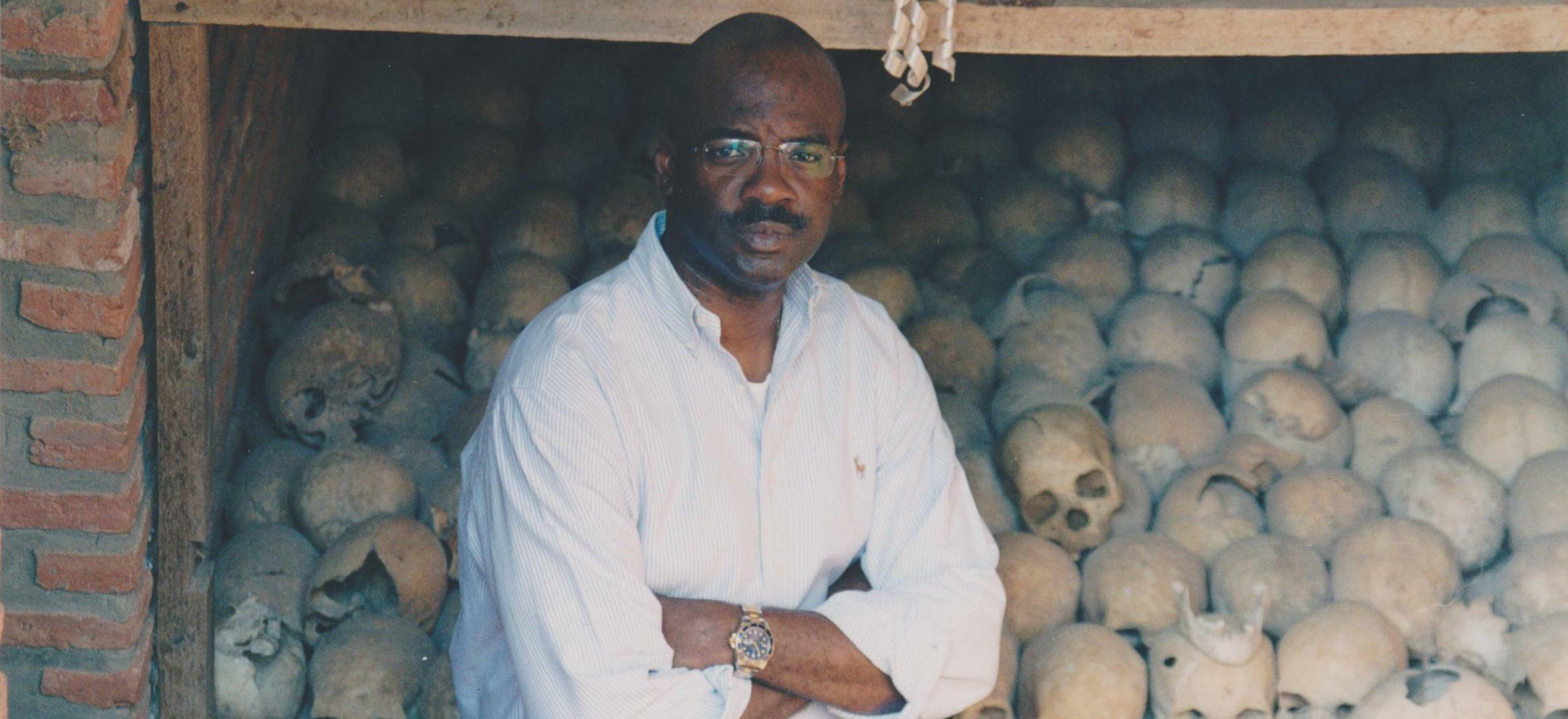 Genocide crime scene in Rwanda.